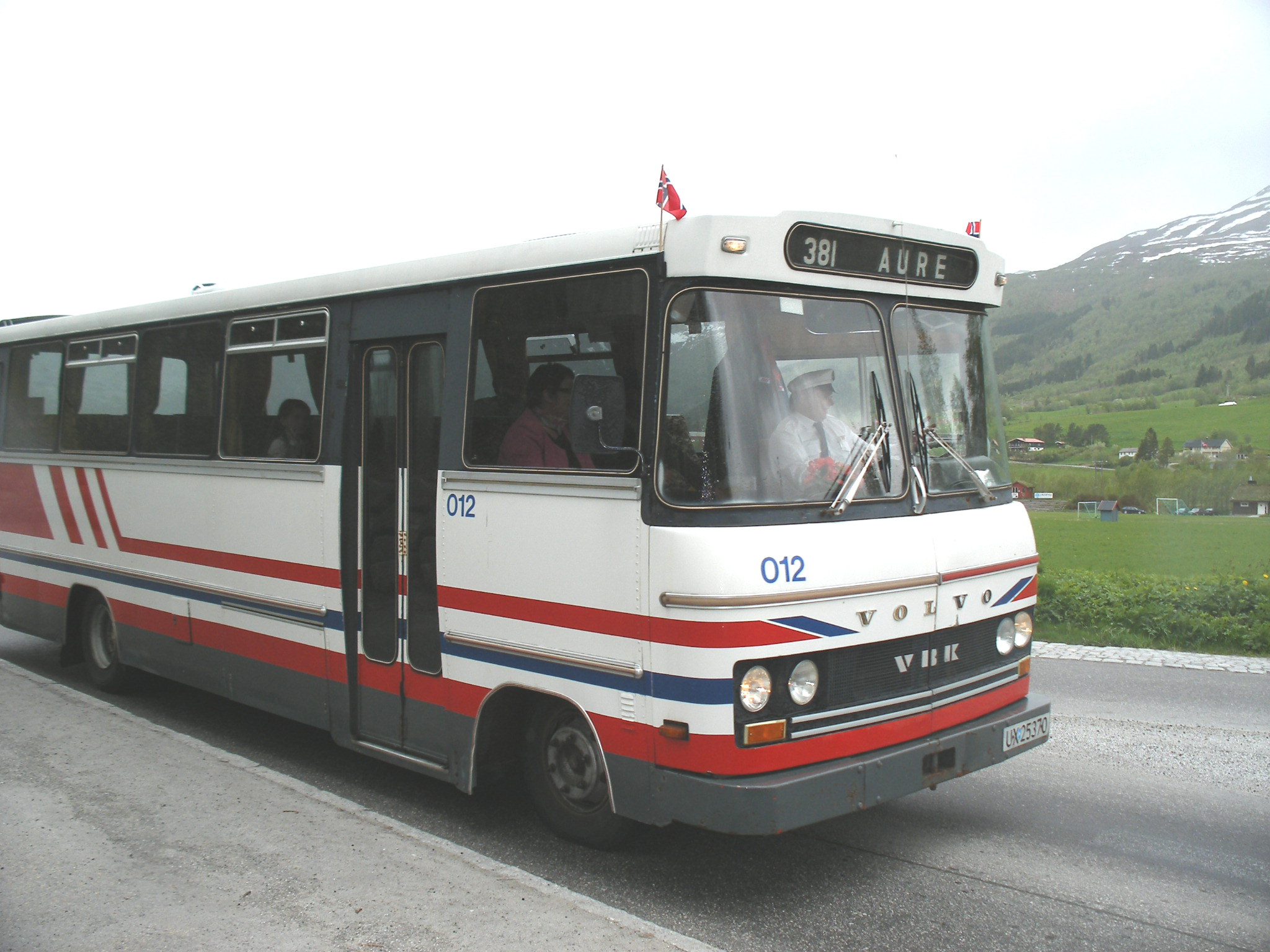 Old bus from Norway. Volvo B609 bus. Aure.